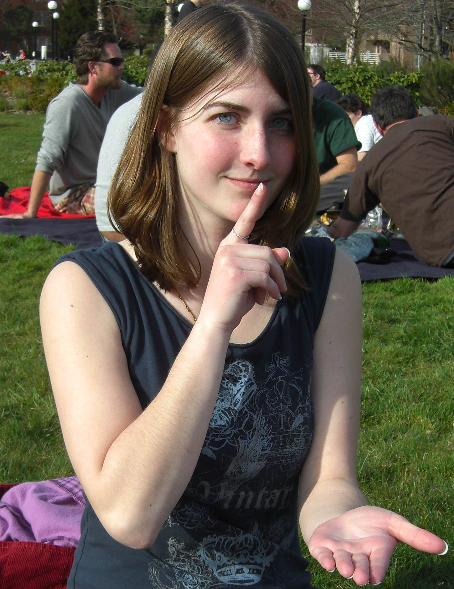 First posture of ASL sign FALL-IN-LOVE (en:1@Mouth-OpenB@CenterTrunkhigh-PalmUp RoundMidline 1@BasePalm-OpenB@CenterTrunkhigh-PalmUp RoundMidline 1@TipPalm-OpenB@CenterTrunkhigh-PalmUp)